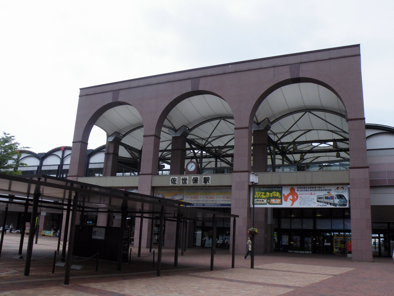 JRKyushu Sasebo Station East Entrance